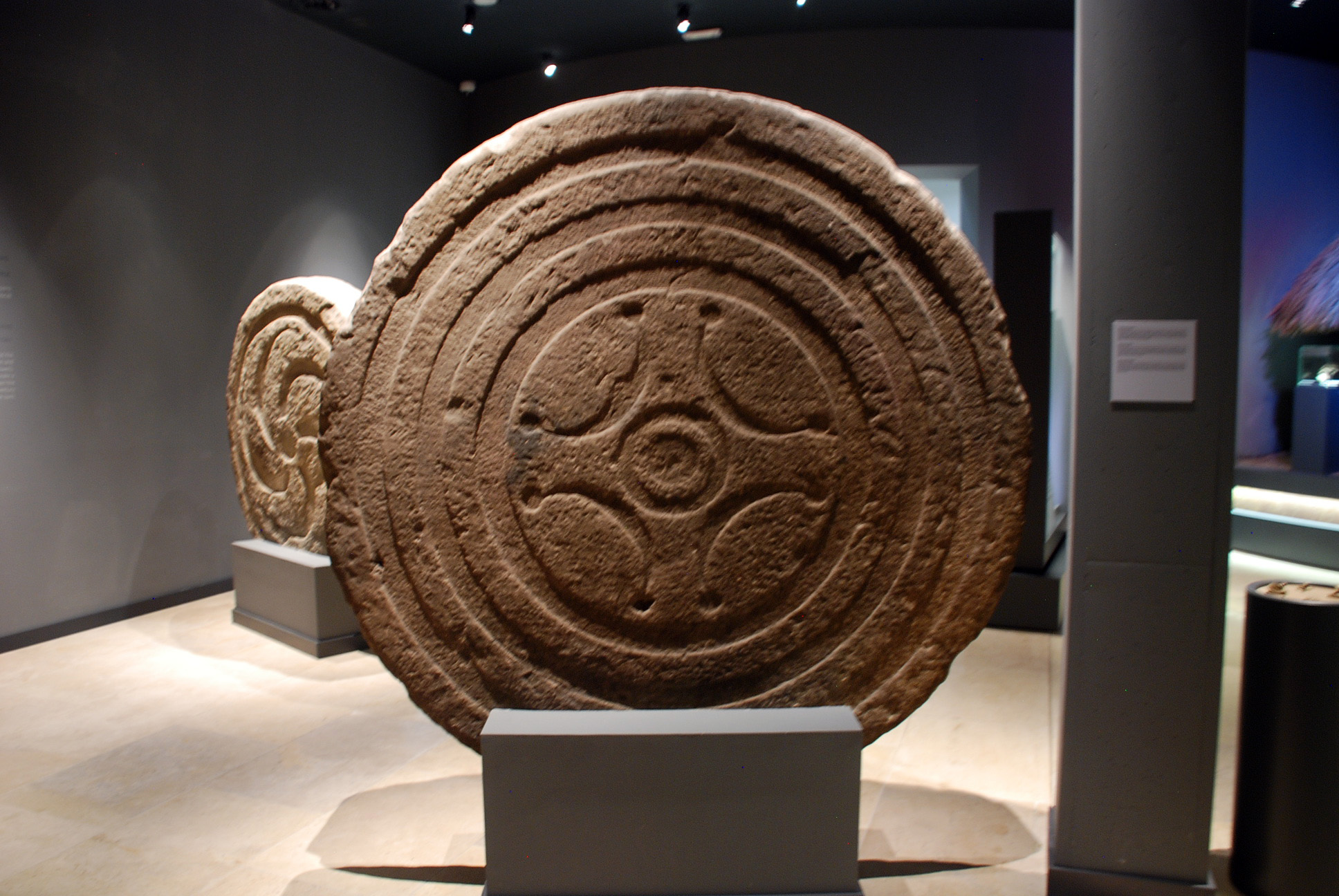 Museum of Prehistory and Archaeology of Cantabria. Reverse of the stele from Zurita (Cantabria).